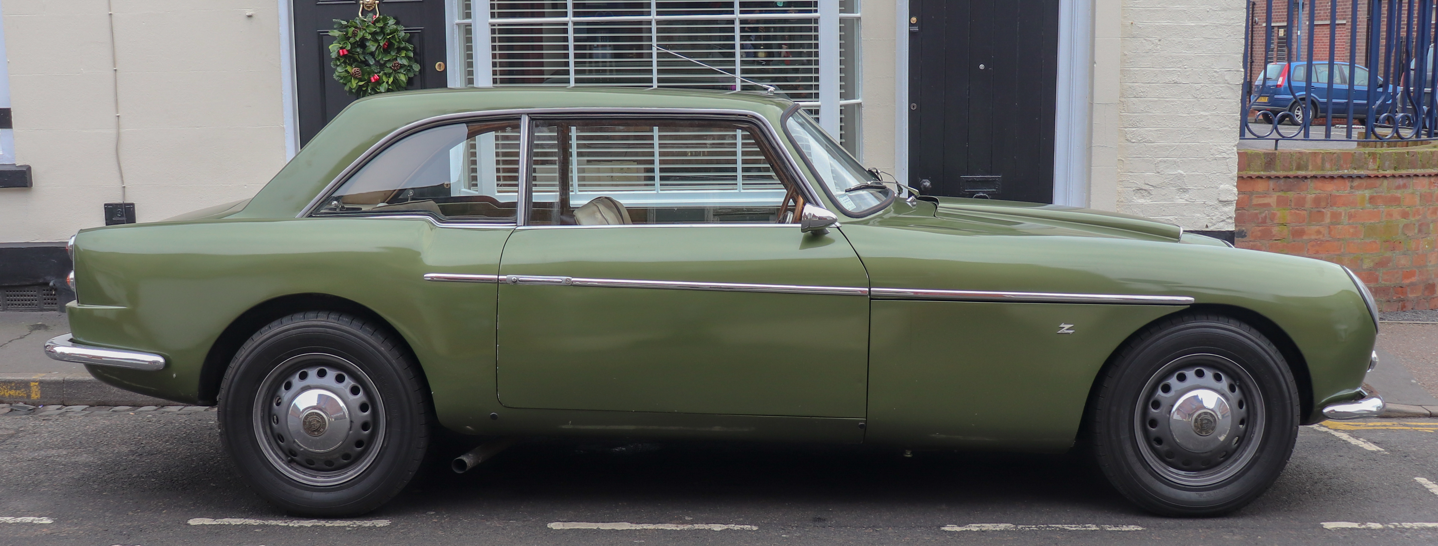 1959 Bristol 406 Zagato 2.2 Side Taken in Warwick